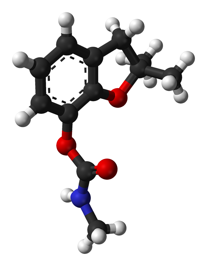 Ball-and-stick model of the carbofuran molecule, C12H15NO3. X-ray crystallographic data from L.-Z. Xu, G.-P. Yu and S.-H. Yang (June 2005). "2,3-Dihydro-2,2-dimethylbenzofuran-7-yl N-methylcarbamate". Acta Cryst. E61 (6): o1924-o1926. Model constructed in CrystalMaker 8.1. Image generated in Accelrys DS Visualizer.